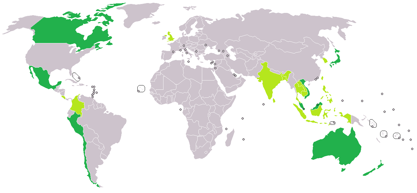 Potential members of the Trans-Pacific Partnership. Currently in negotiations Announced interest in joining Potential future members